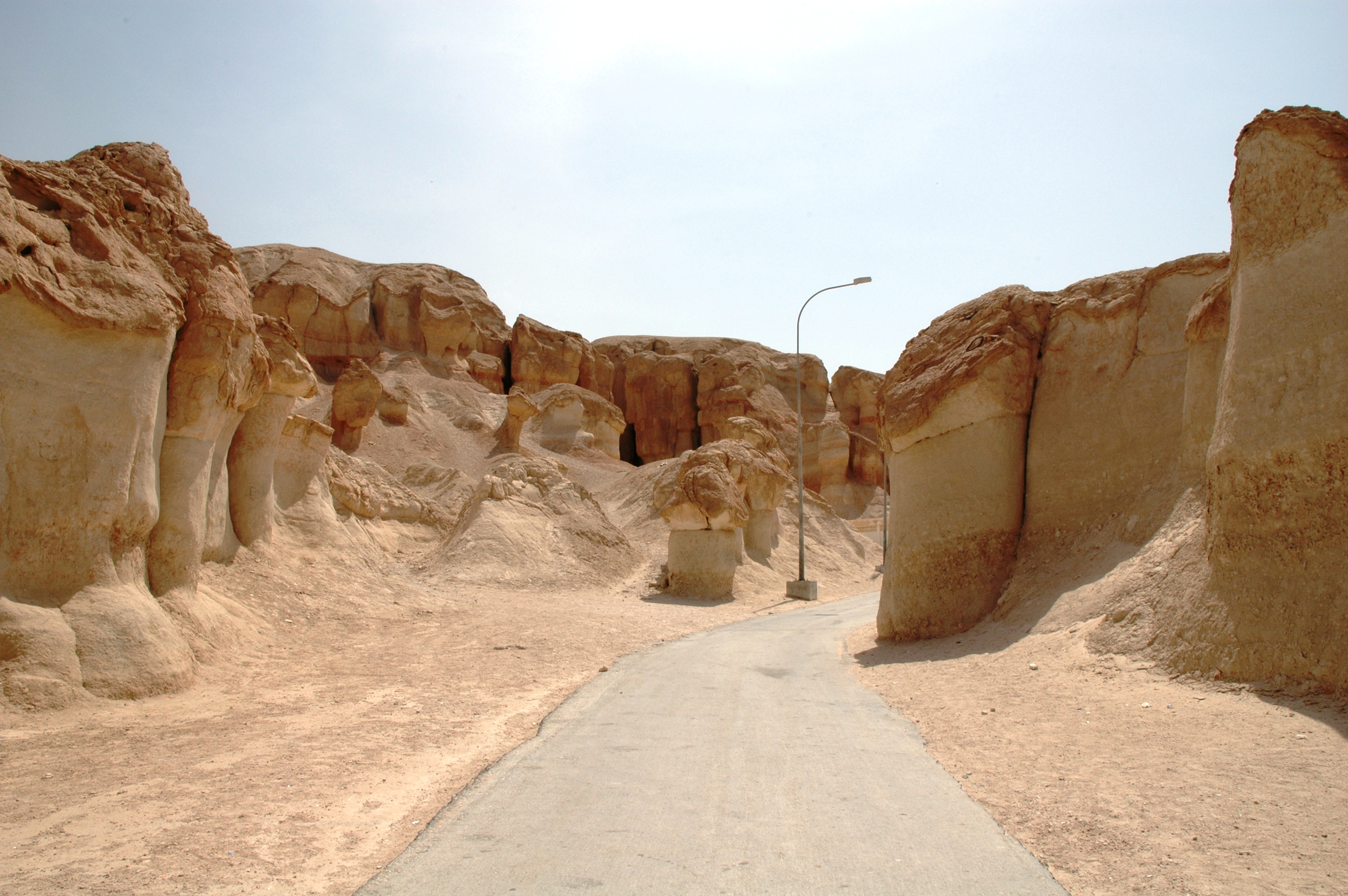 Path to Jabal AlGara Caves